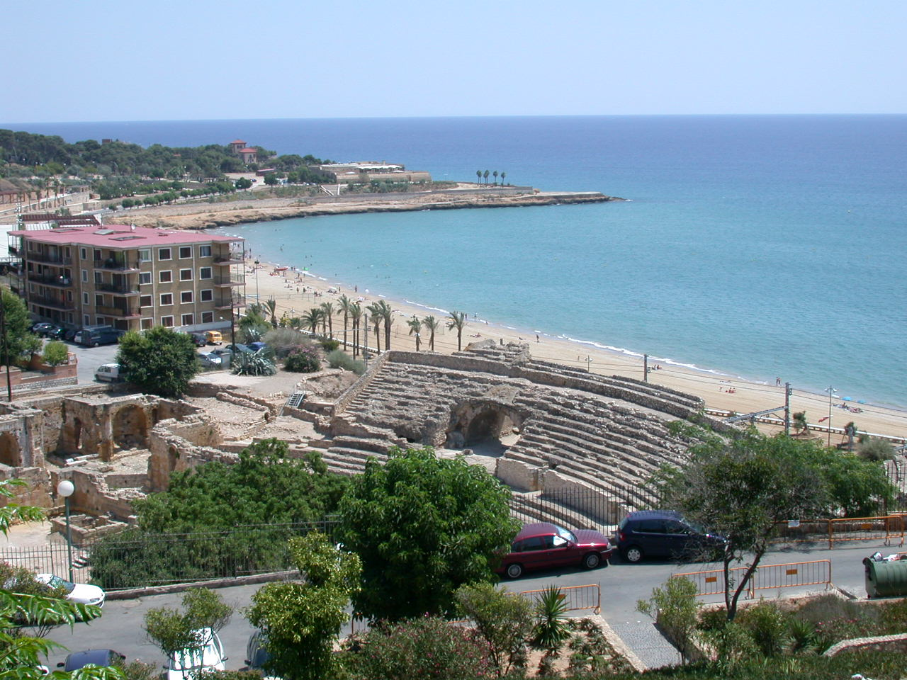 View of Tarragona, Spain, and its roman amphitheatre Photographed by Mschlindwein, August, 2002